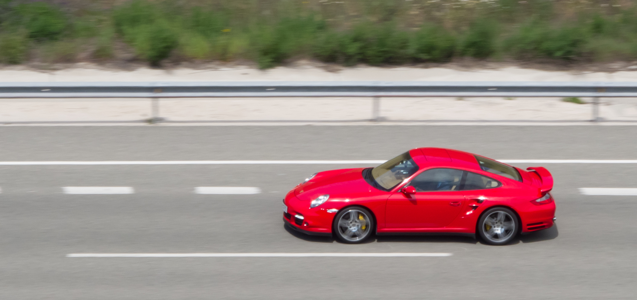 Porsche 911 Turbo passing.